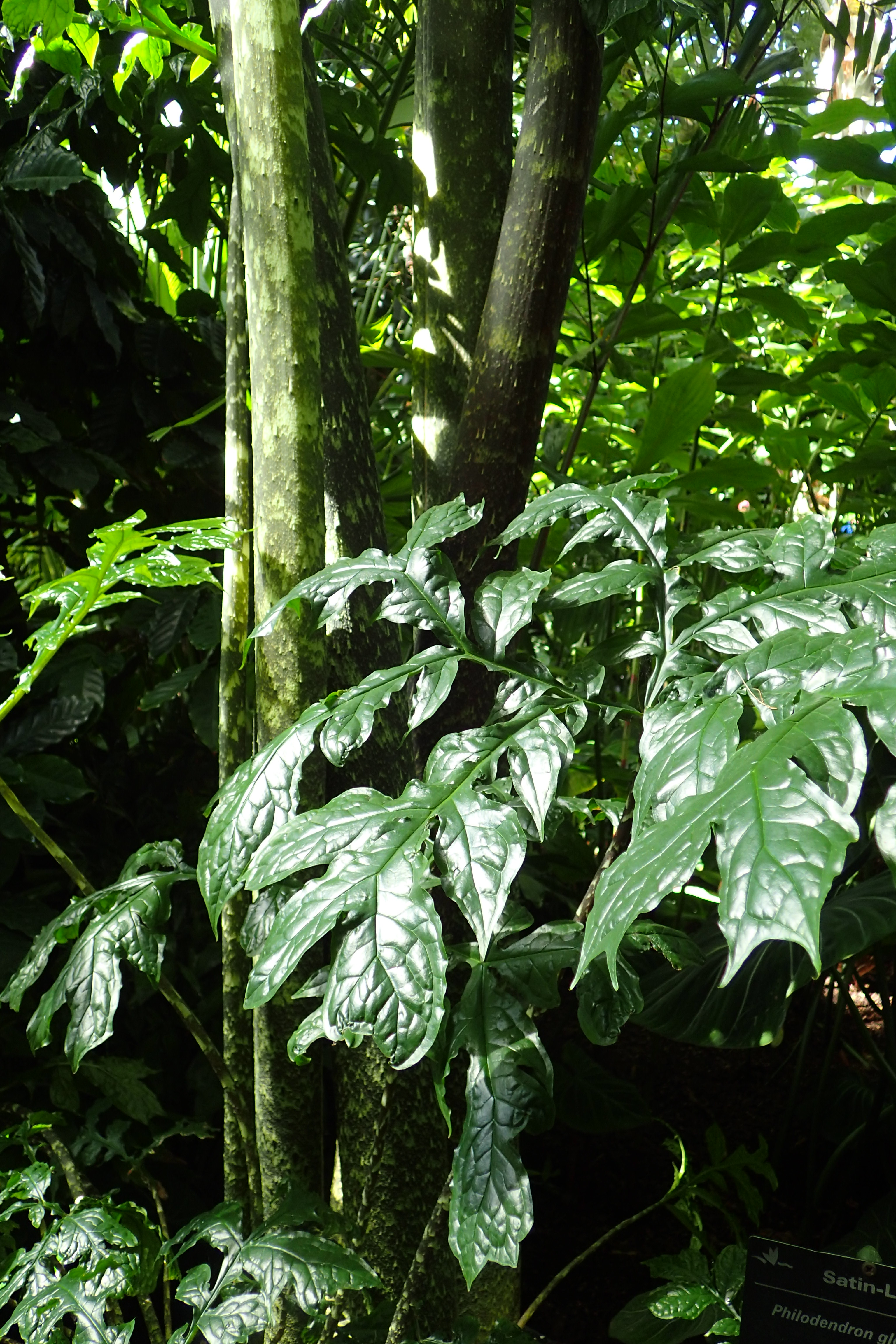 Dracontium gigas in Boltz Conservatory, Madison, Wisconsin